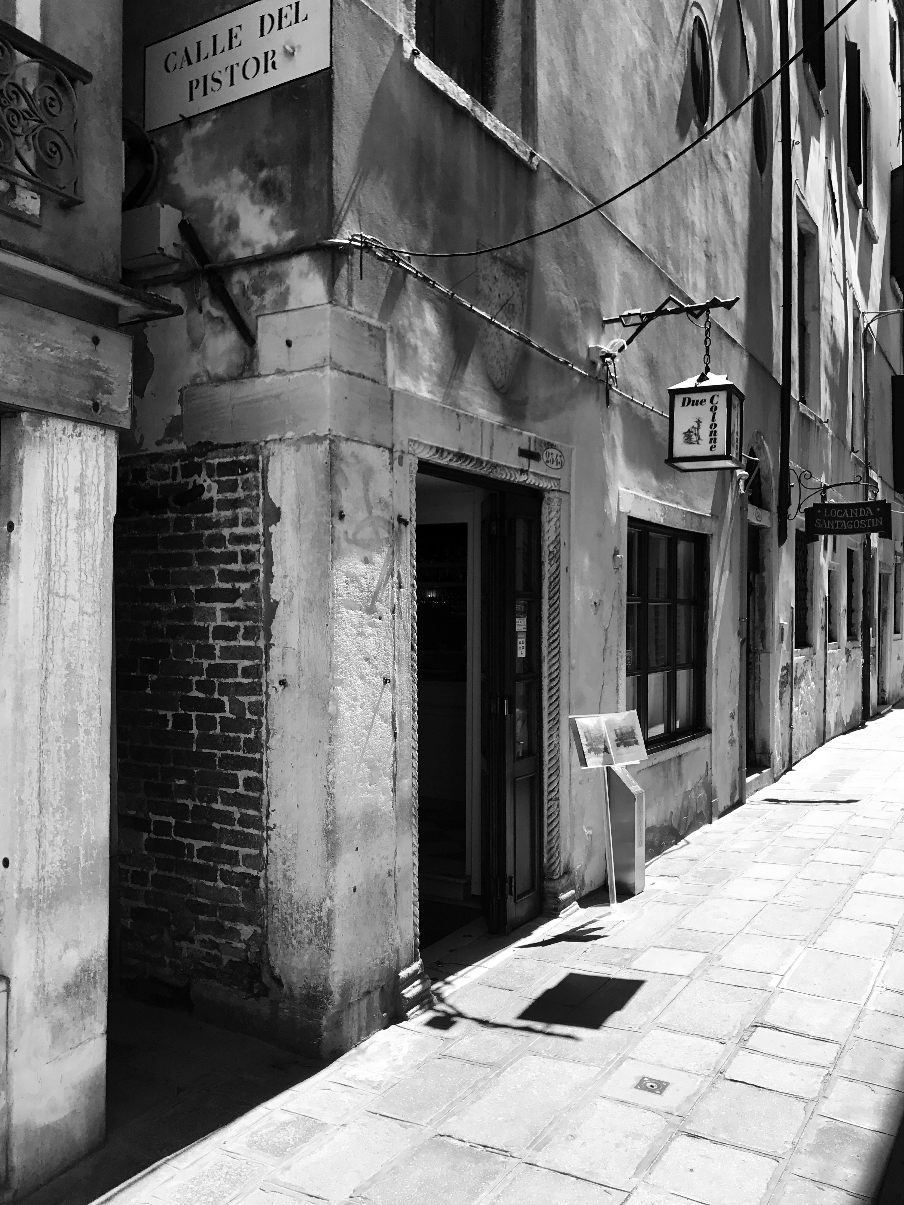 The true first location of the Aldine Press on campo Sant'Agostin, now the restaurant Due Colonne, #2343 calle della Chiesa.